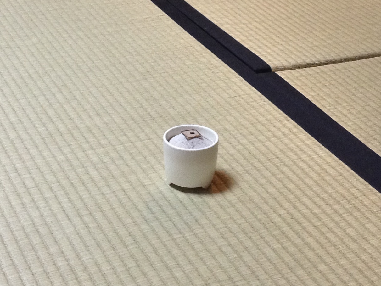 A small white kōro (香炉) incense censer filled with hot ash and coal, topped by a small mica plate that holds a small piece of fragrant wood. Part of a game of ayameko (菖蒲香), part of the Japanese incense ceremony.